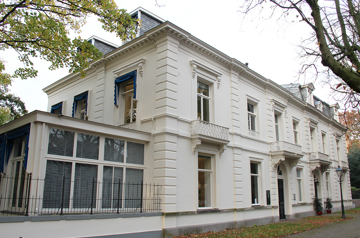 The Hague Institute for Global Justice, near Plein 1813, photo taken October 30, 2014